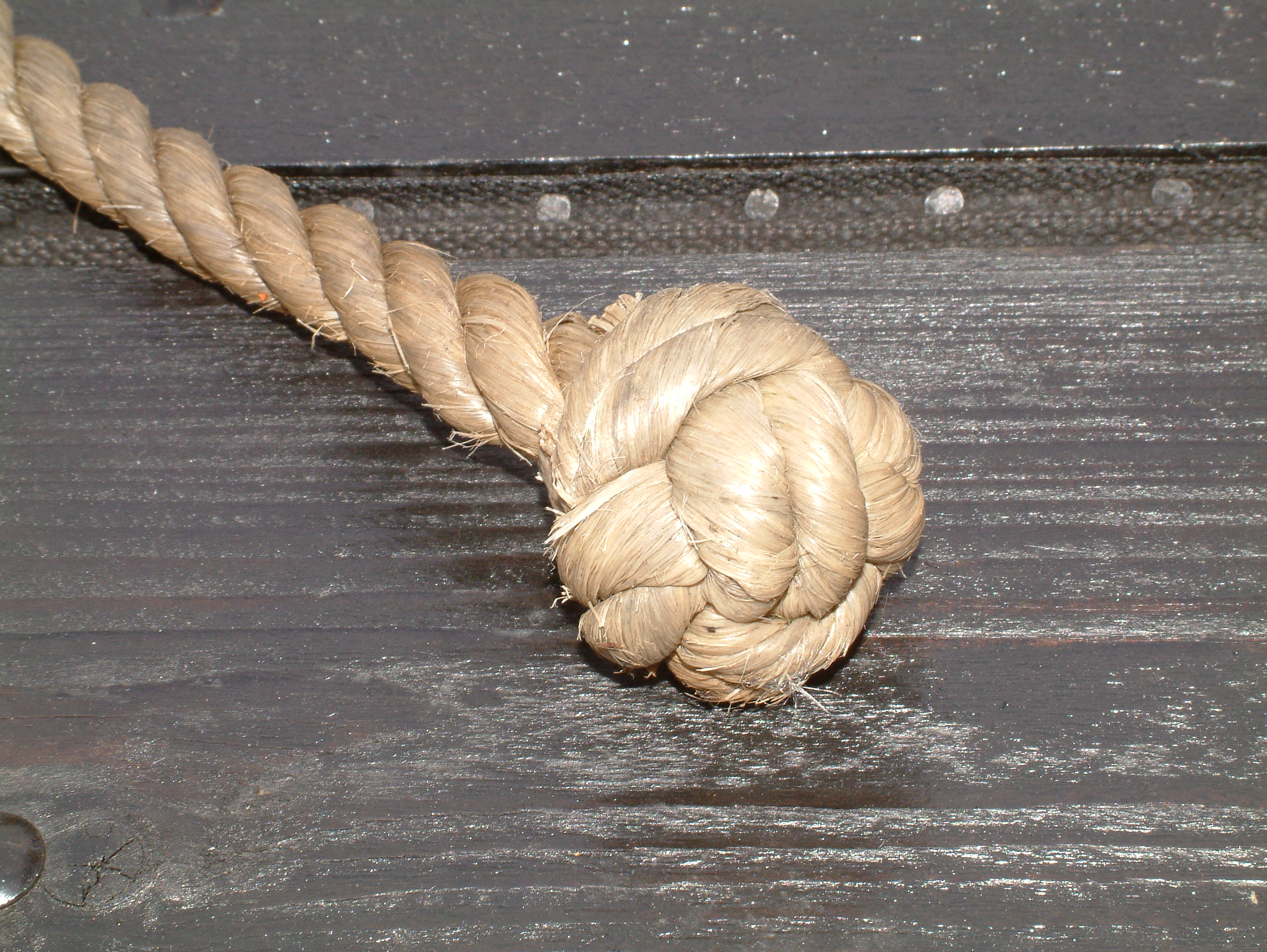 Wall and crown knot